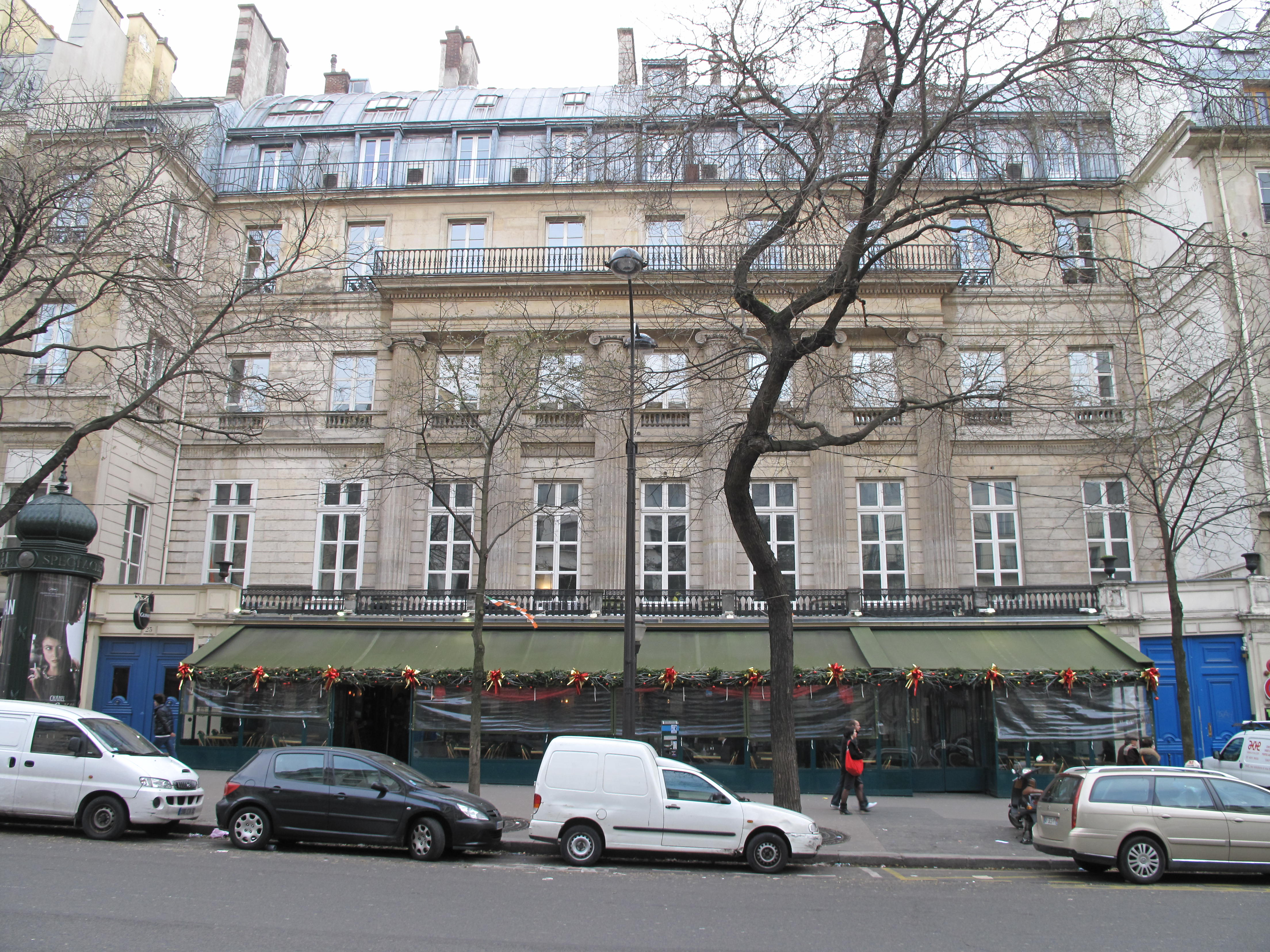 Mansion Montholon, 23 Boulevard Poissonnière, Paris 2nd arr. Built in 1785 by François Soufflot for Nicolas de Montholon, president of parlement of Normandy.)